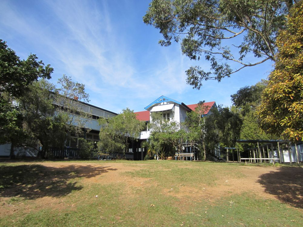 Virginia State School - Block D, tchrs rm, from NW (2015)